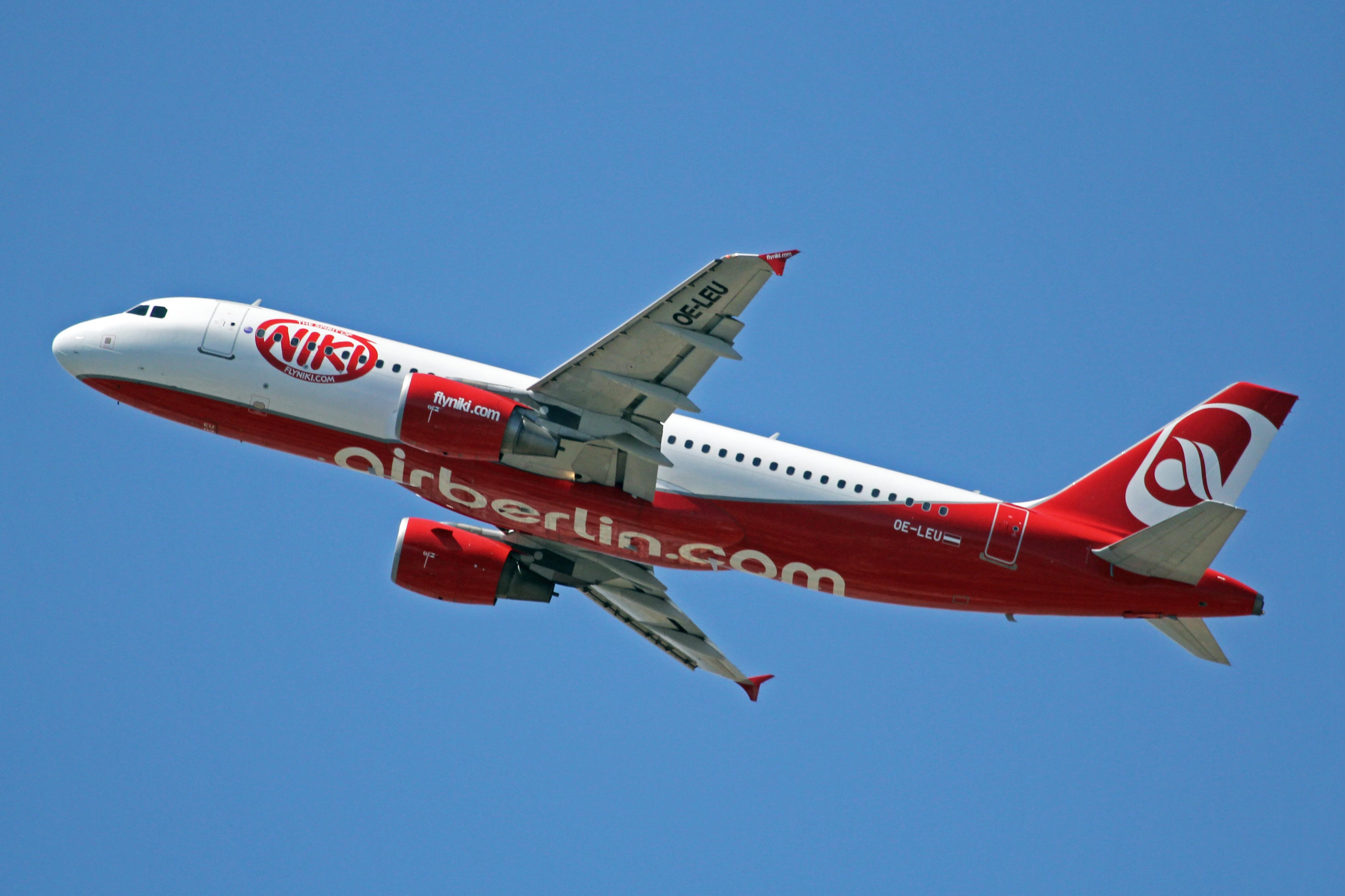 In Air Berlin c/scheme with flyNiki titles (and Air Berlin titles underneath!)